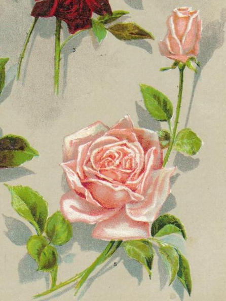 Painting of the Rose cultivar 'La France' in the New International Encyclopedia, 1902